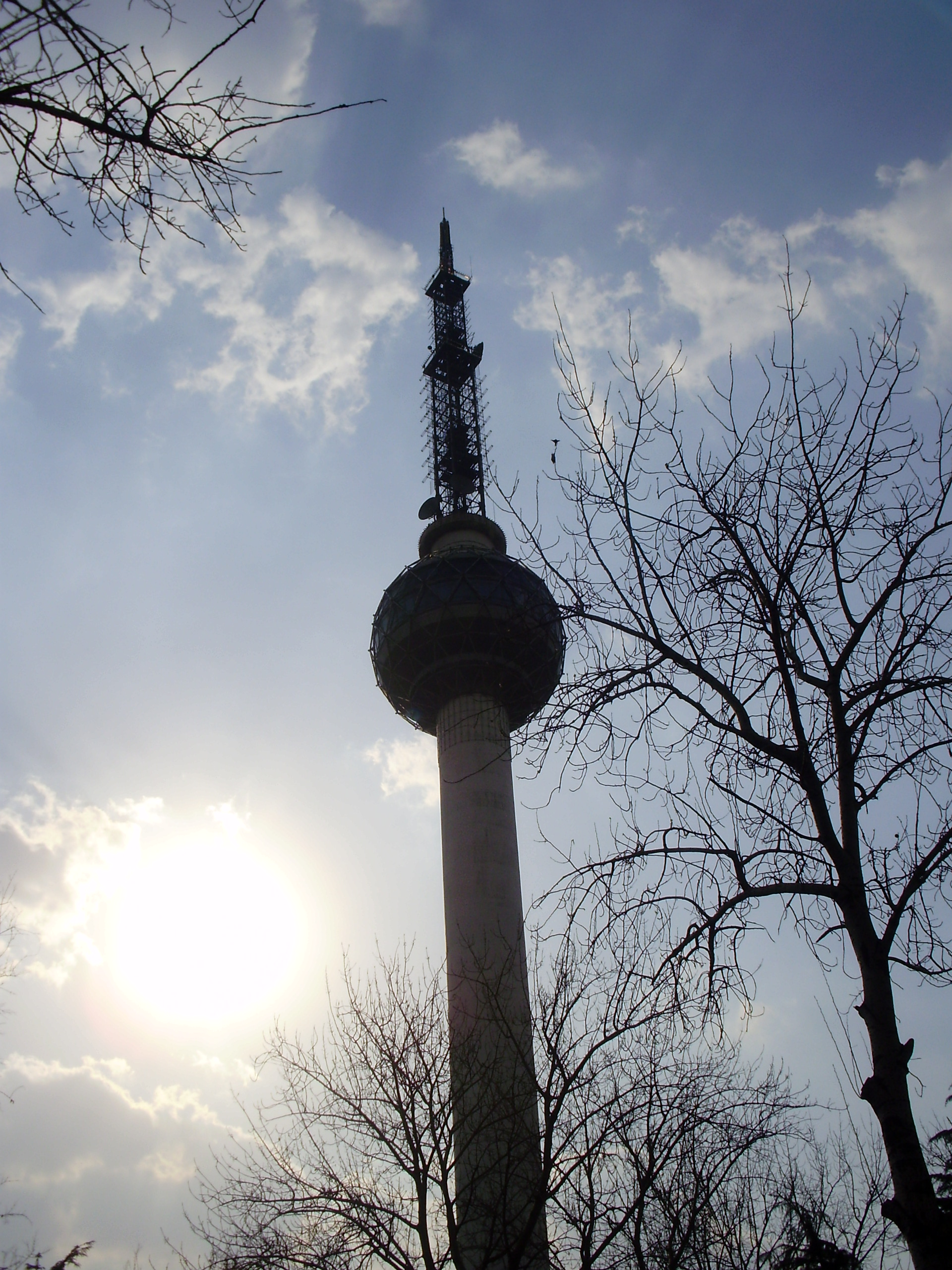 Xuzhou TV Tower